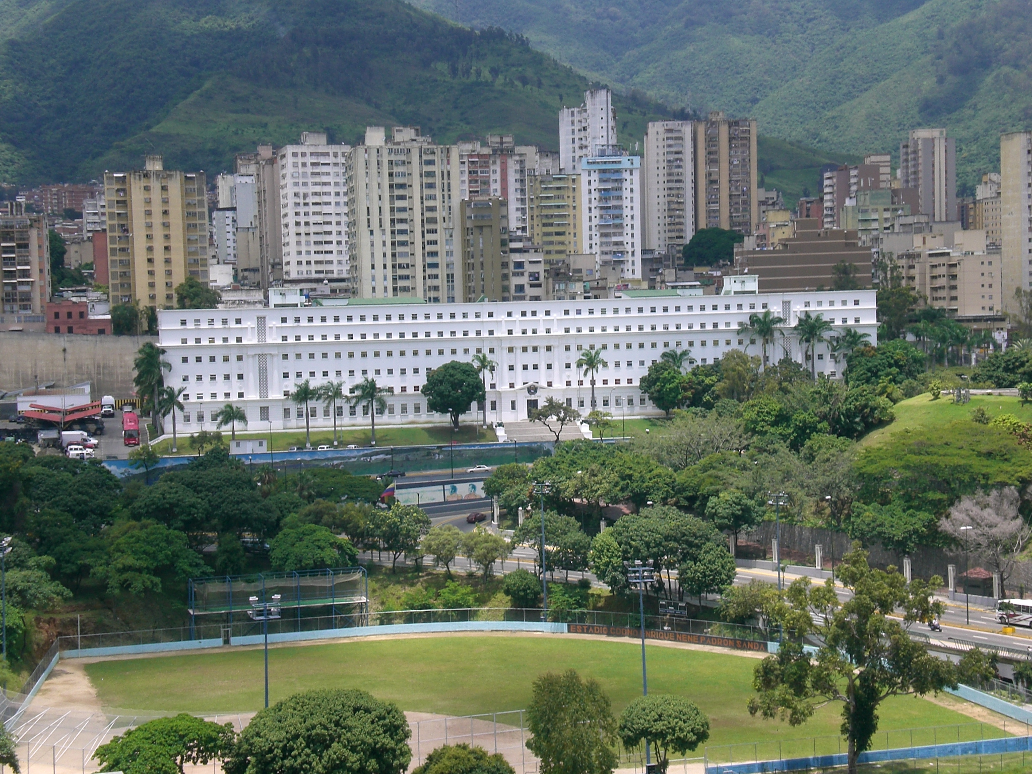 Cuartel General de División Fernando Rodríguez del Toro